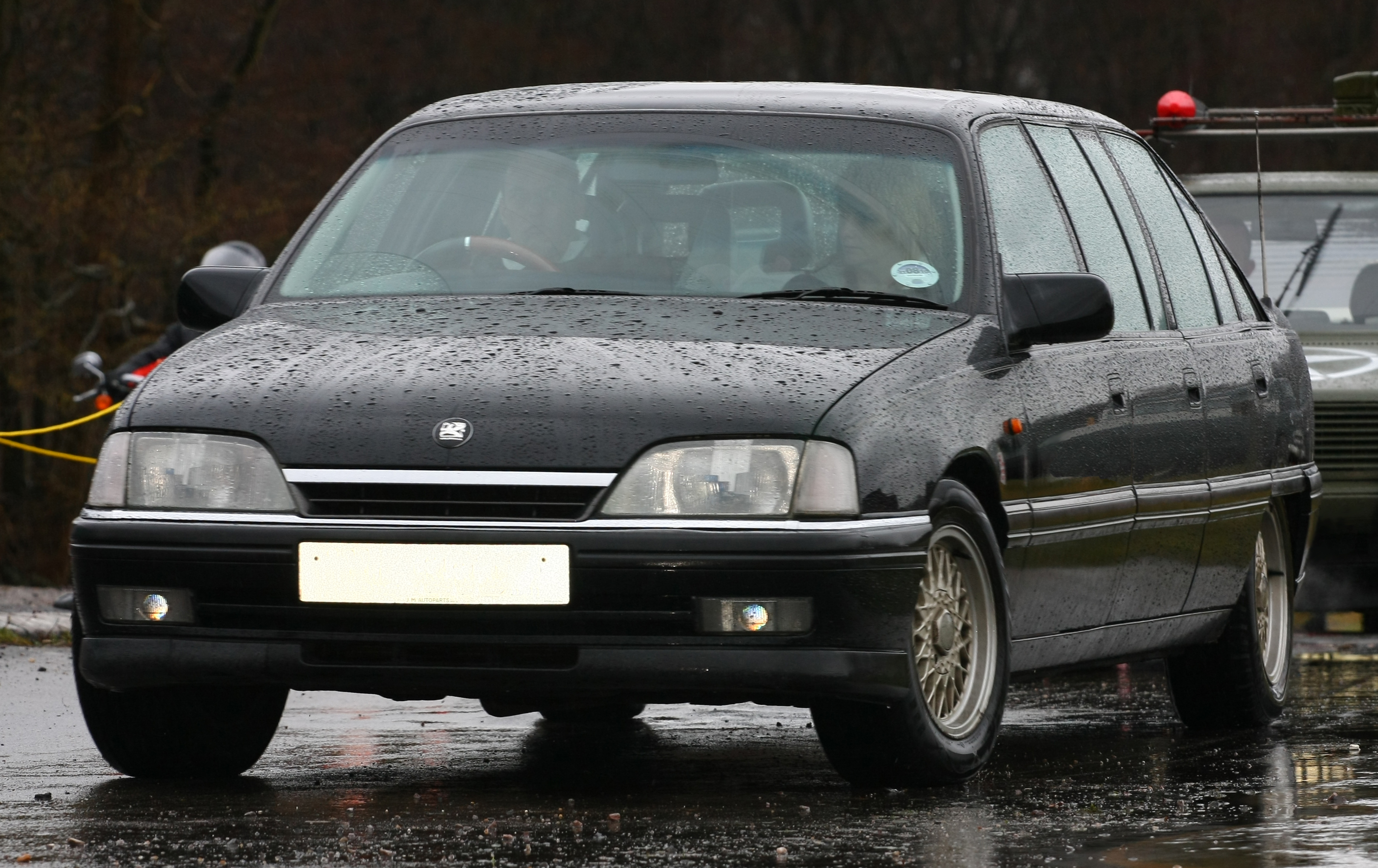 Long wheelbase six-door 1993 Vauxhall Carlton 2.6 (Opel Omega A) at Wheels Day, Rushmoor Arena, 2010 (UK)